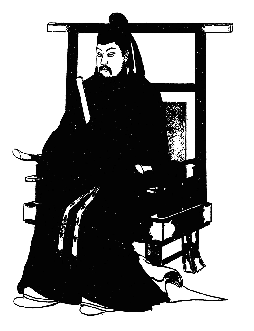 Emperor Tenji (天智天皇, Tenji Tennō), who was the 38th emperor of Japan (reign:668-672)